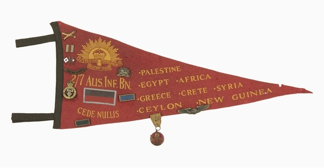 2/7th Battalion souvenir pennant